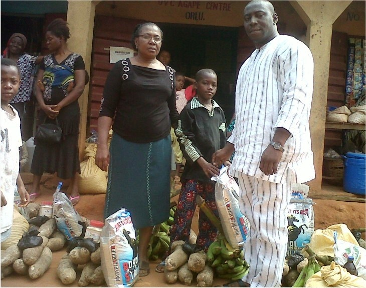 Photo of Chuma Mmeka providing psychosocial and nutritional support to orphans and vulnerable Nigerian children